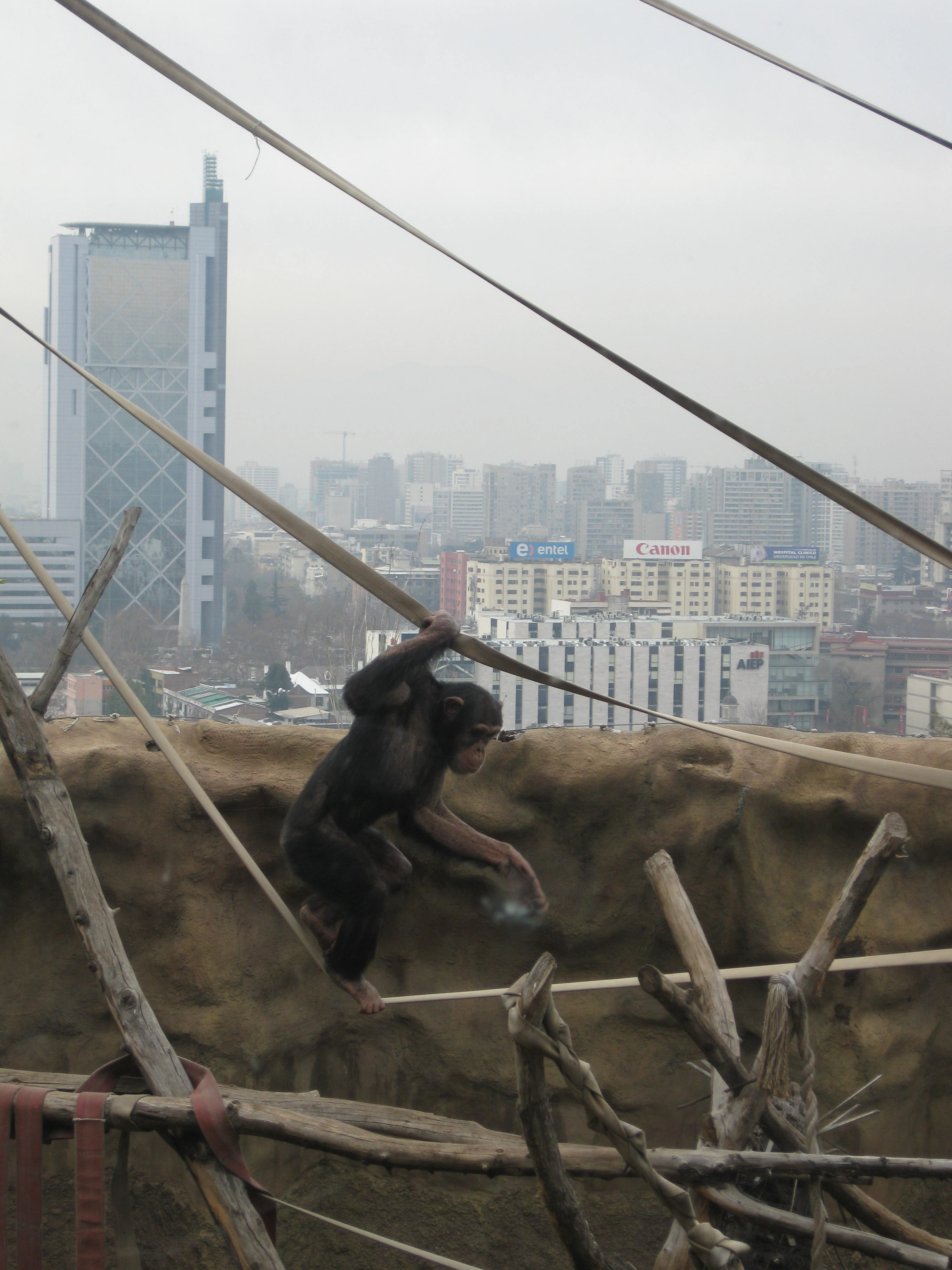 New member of the National Zoo Common Chimpanzee